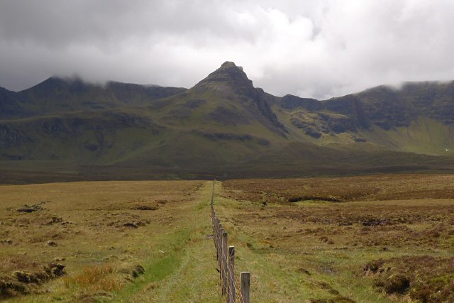 Dismantled railway The railway used to run to a diatomite mine. This section has been used as dry ground for a fence, and it makes a good alternative path to the nearby track. Ahead is Sgurr a'Mhadaidh Ruaidh (Hill of the Red Fox). It's hard to look at the ground with a view like this ahead.